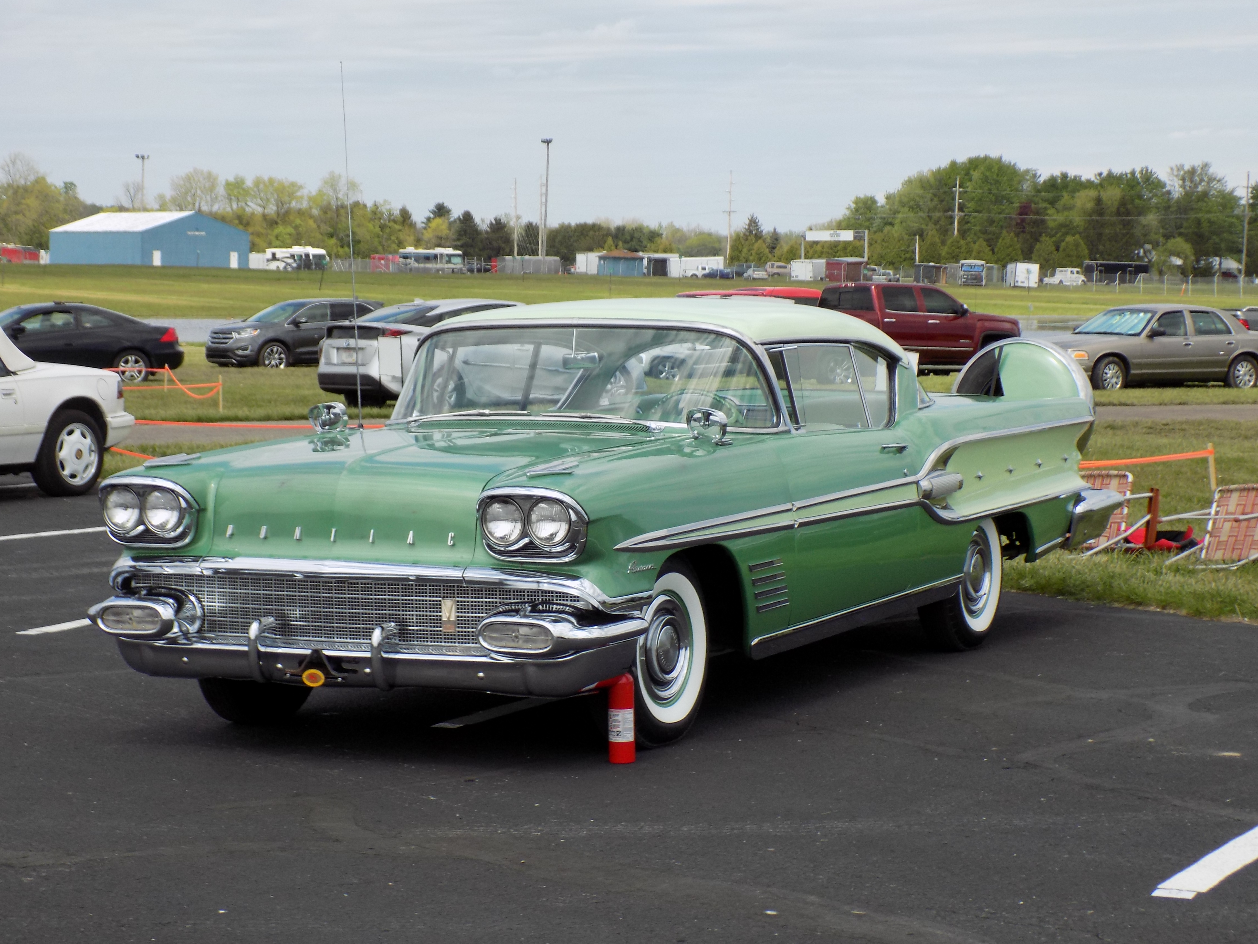 1958 Pontiac Parisienne Sport Coupe at the Auburn Spring RM Sotheby's Auctions, Auburn, Indiana, May 2017.